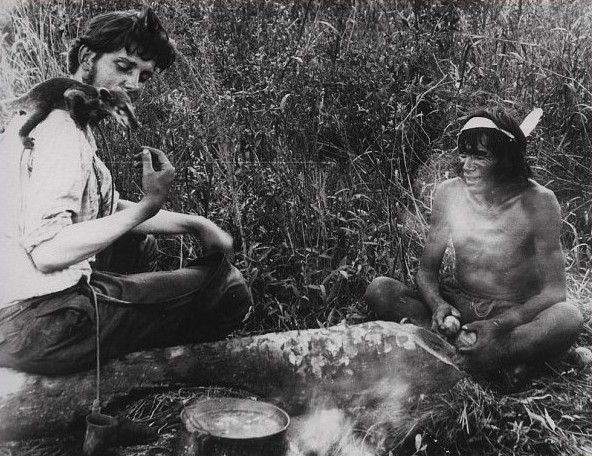 Alberto Vojtech Frič in Brazil (~1906)